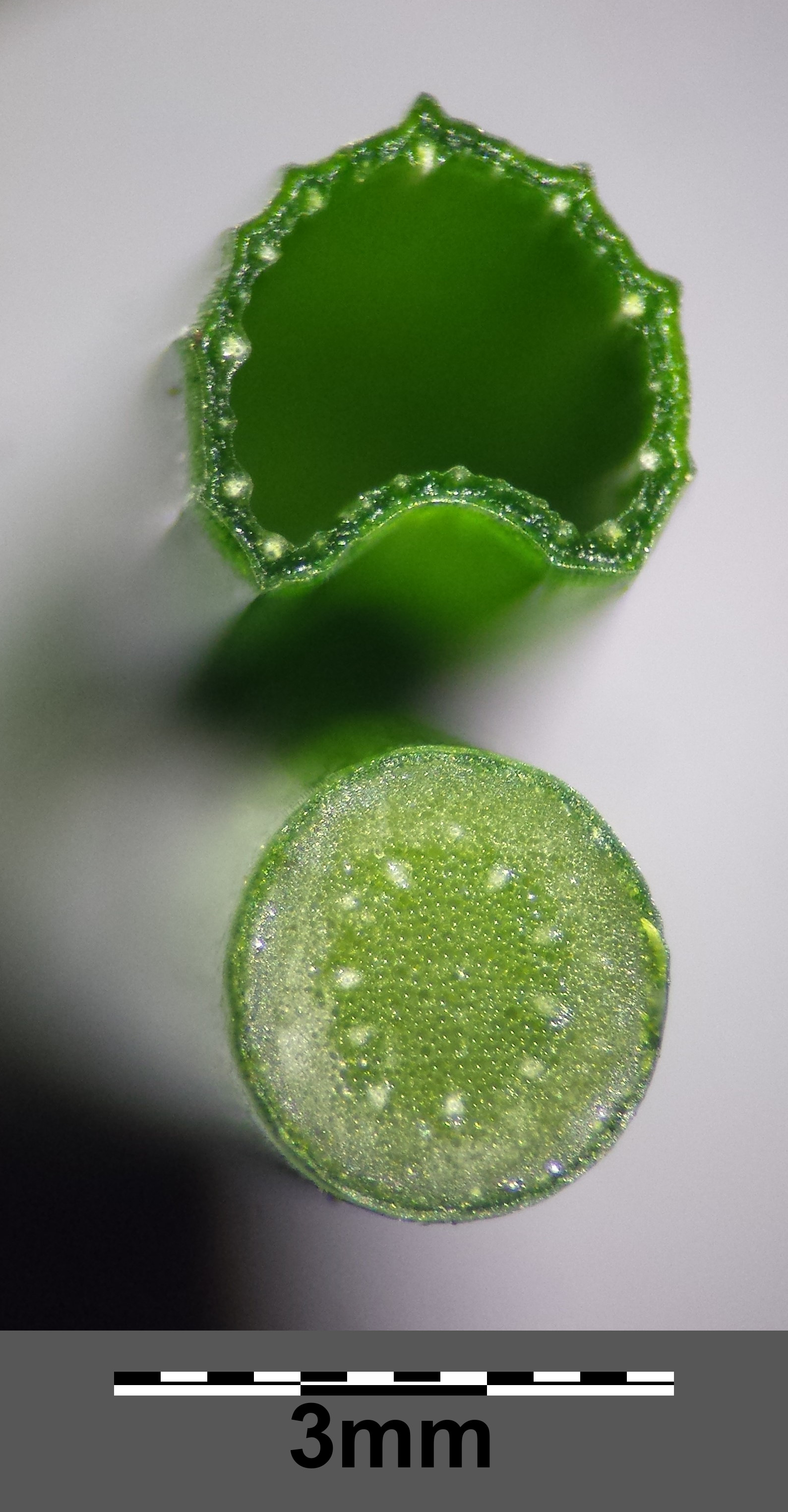 Stem (below) with leaf (above) - cross section Taxonym: Allium vineale ss Fischer et al. EfÖLS 2008 ISBN 978-3-85474-187-9 Location: near Kaltenleutgeben, district Mödling, Lower Austria - ca. 430 m a.s.l. Habitat: meadows